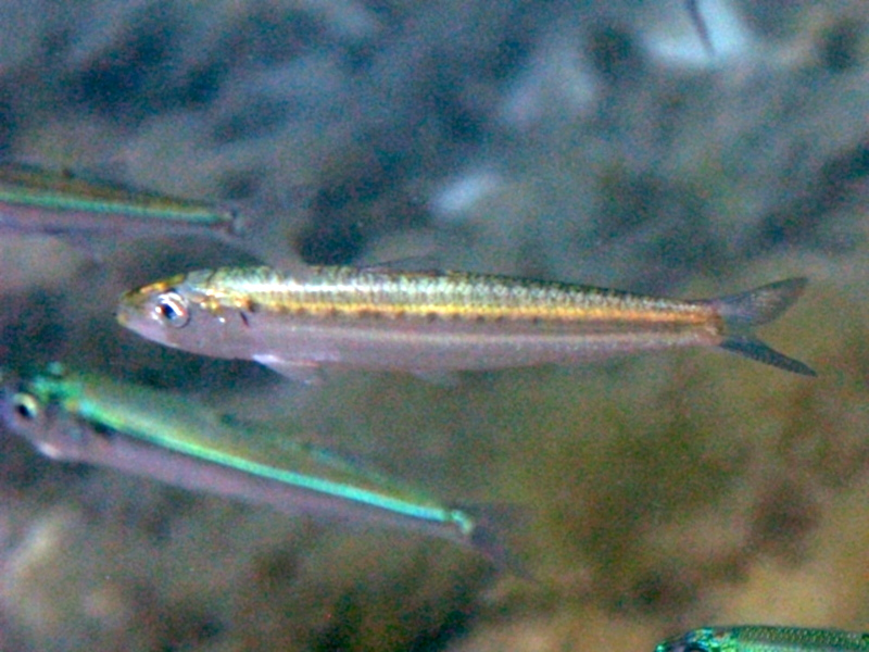 Sardina pilchardus photographed in Sardinia, Italy.